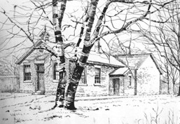 Sketch of the original Howard Park School on Boustead Ave